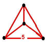 en:120-cell vertex figure